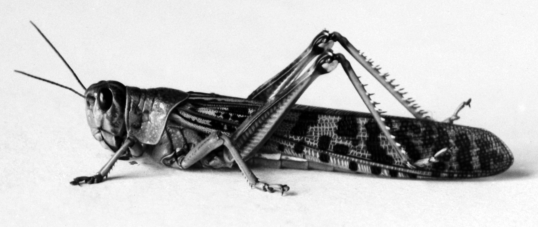 Species: Probably a desert locust (Schistocerca gregaria) TITLE: The terrible plague of locusts in Palestine, March-June 1915. The complete locust. CALL NUMBER: LC-M32- 1462[P&P] REPRODUCTION NUMBER: LC-DIG-matpc-01930 (digital file from original photo) No known restrictions on publication. MEDIUM: 1 negative: glass, stereograph, dry plate; 5 x 7 in.